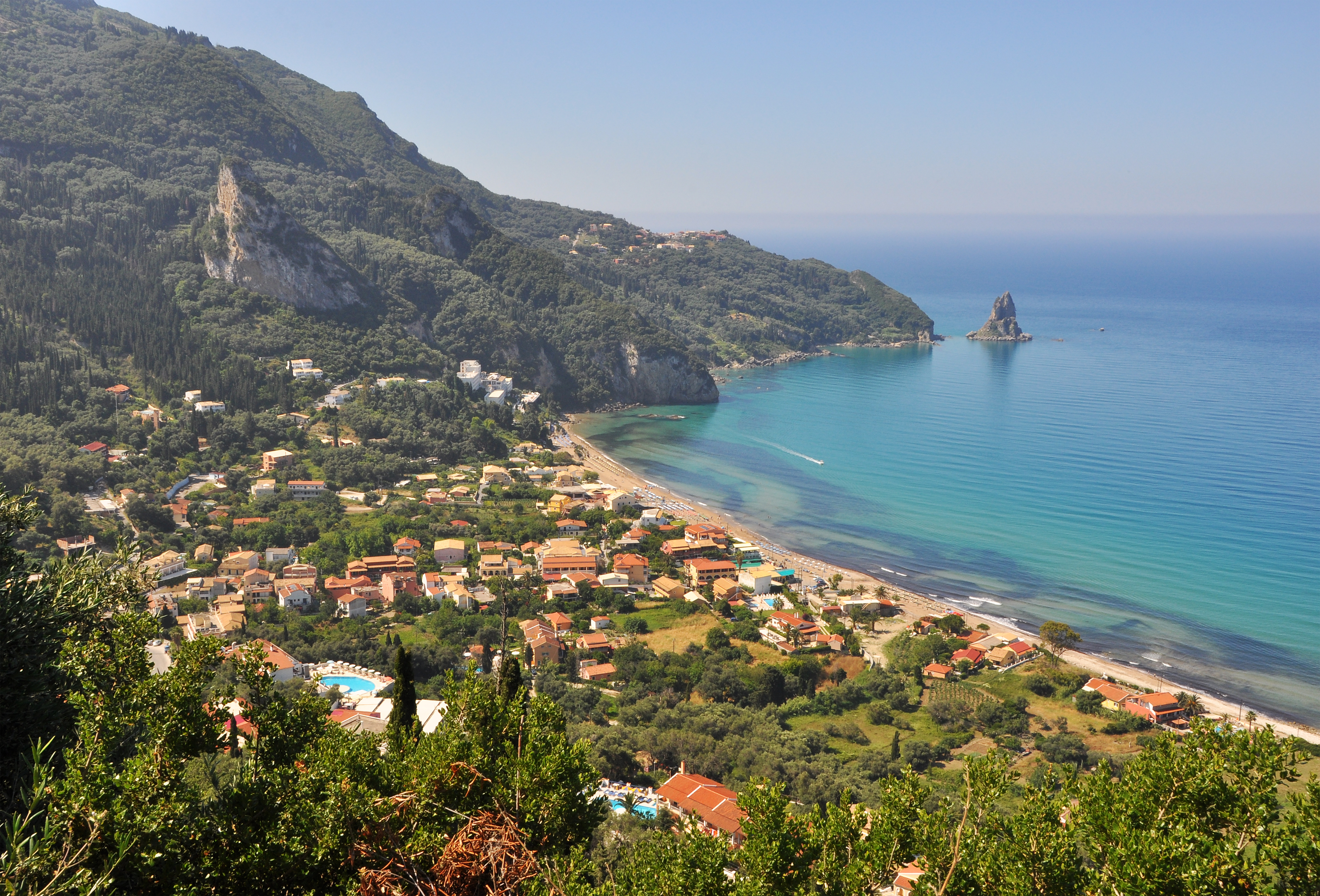 Agios Gordis (Corfu, Greece)